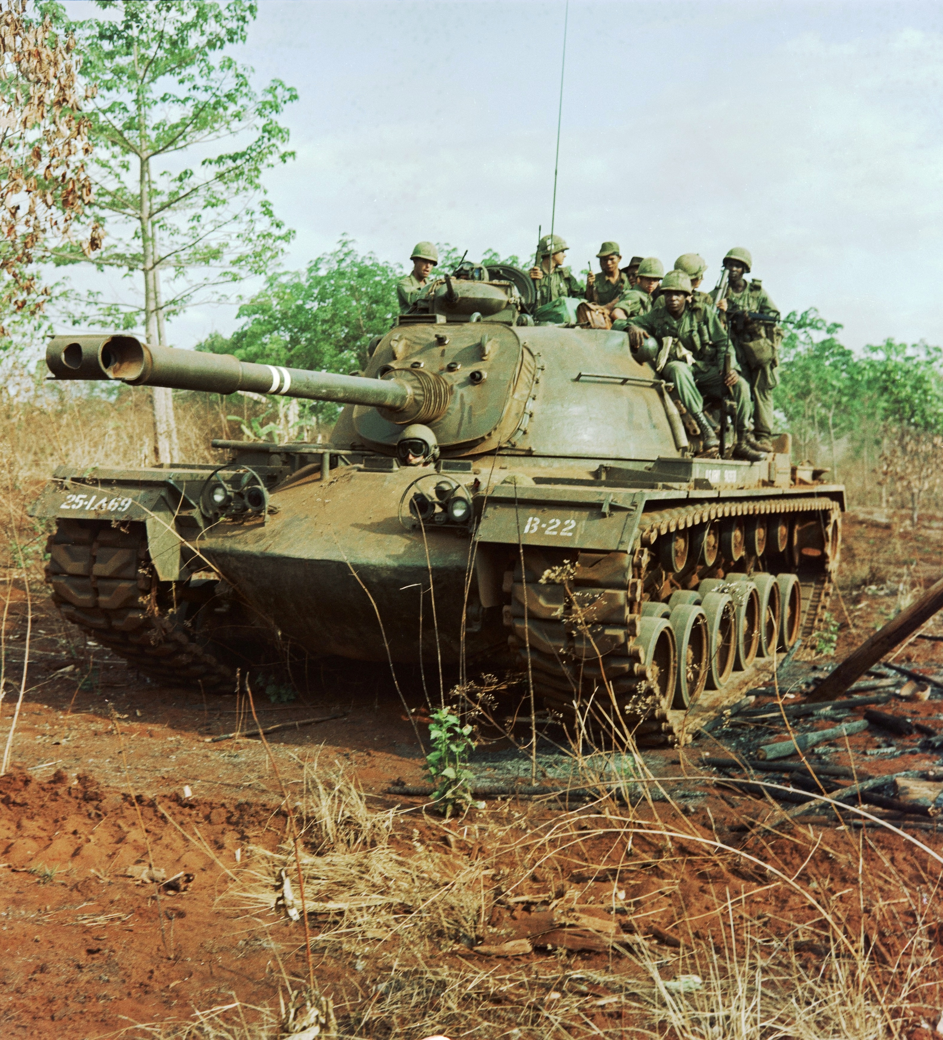 Operation “Lincoln” was a search and destroy mission with combined forces from the 69th Armored, 25th Infantry Division and a brigade from the 1st Air Cavalry Division (Air Mobile). A M48A3 tank belonging to the 1st Battalion, 69th Armored, 25th Infantry Division moves through a destroyed Viet Cong camp which was located South of Pleiku, RVN. Other members of the unit grab a ride on the back of the tank.